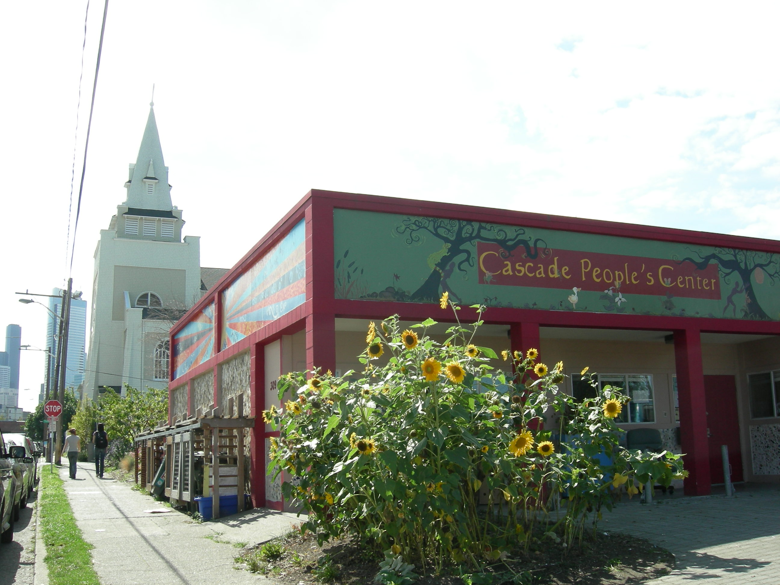 Cascade People's Center, Seattle, Washington. In the background at left is Immanuel Lutheran Church (on the National Register of Historic Places, ID #82004239). Cascade is the historic name of part of what has come more recently to be referred to as South Lake Union. The use of "Cascade" in the Center's name is presumably an effort to connect to the historic working class character of the now gentrifying neighborhood (and of the people the Center attempts to serve).